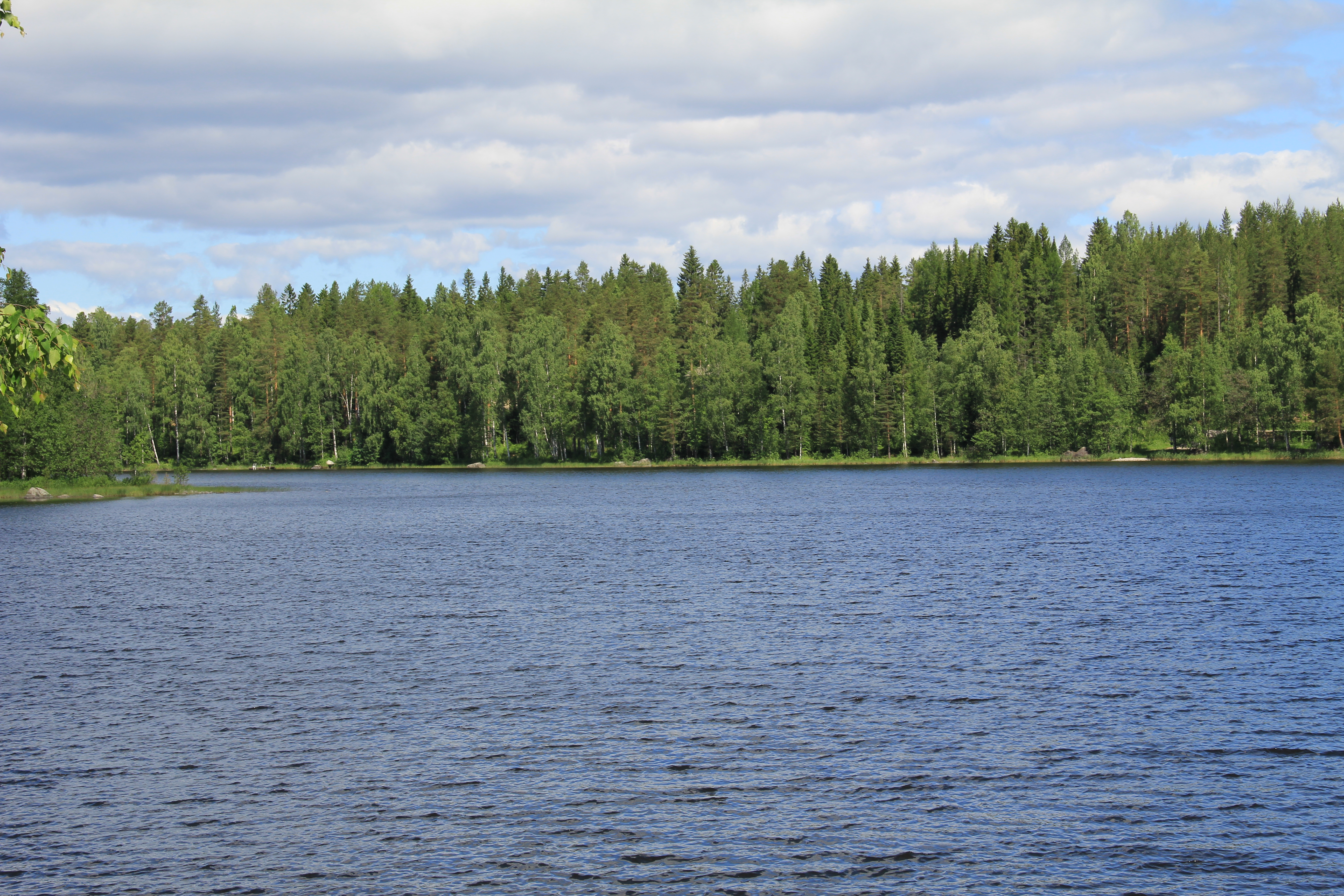 Lake Ylä-Enonvesi, Pirttilahti bay, Enonkoski, Finland.